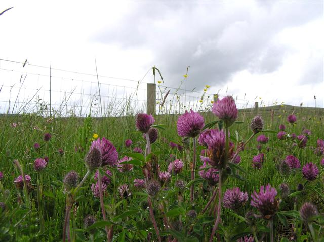 Clover at Meenadoon A sample of the wild flowers along the roadside.